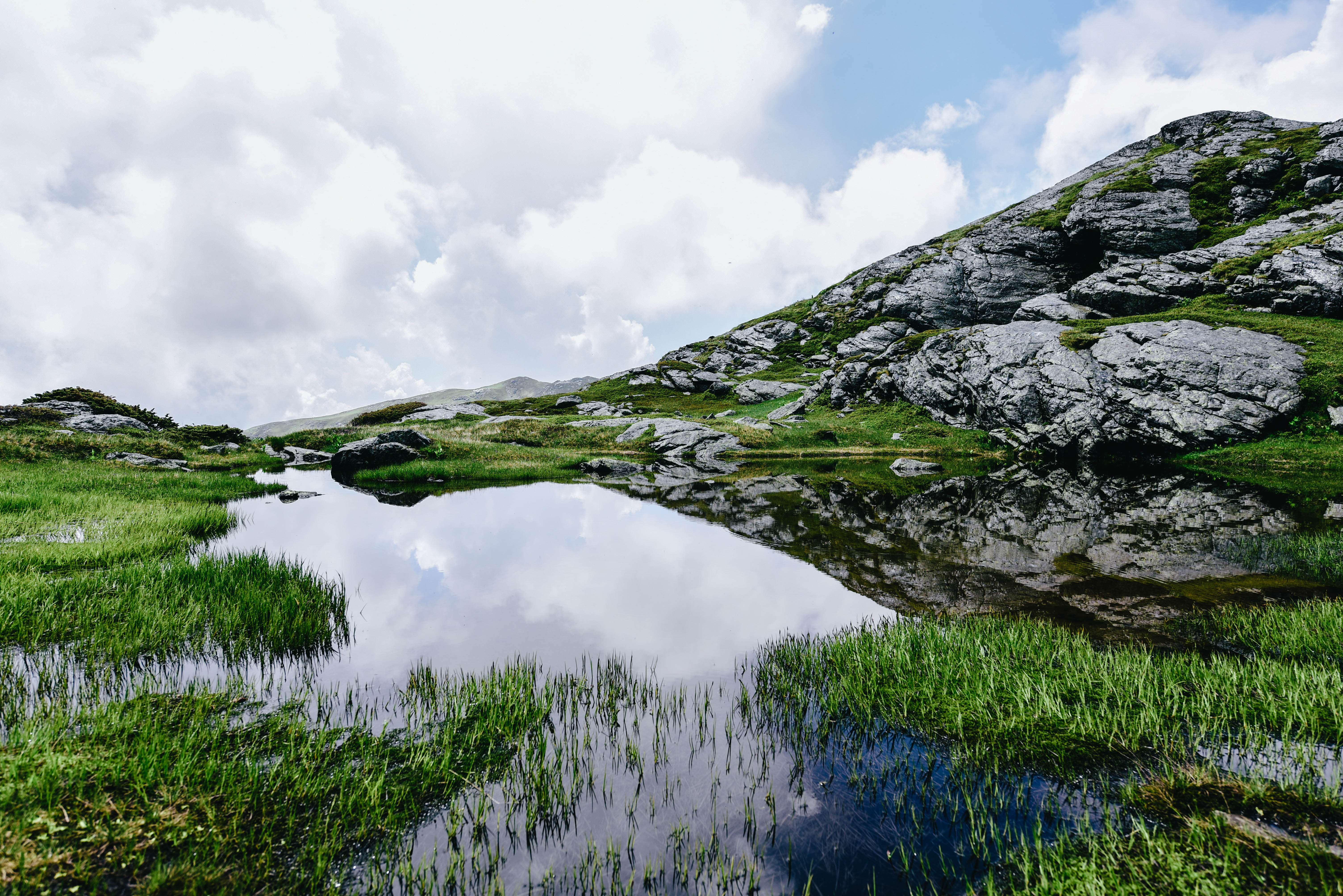 One of Gjeravica lakes in Dragash.